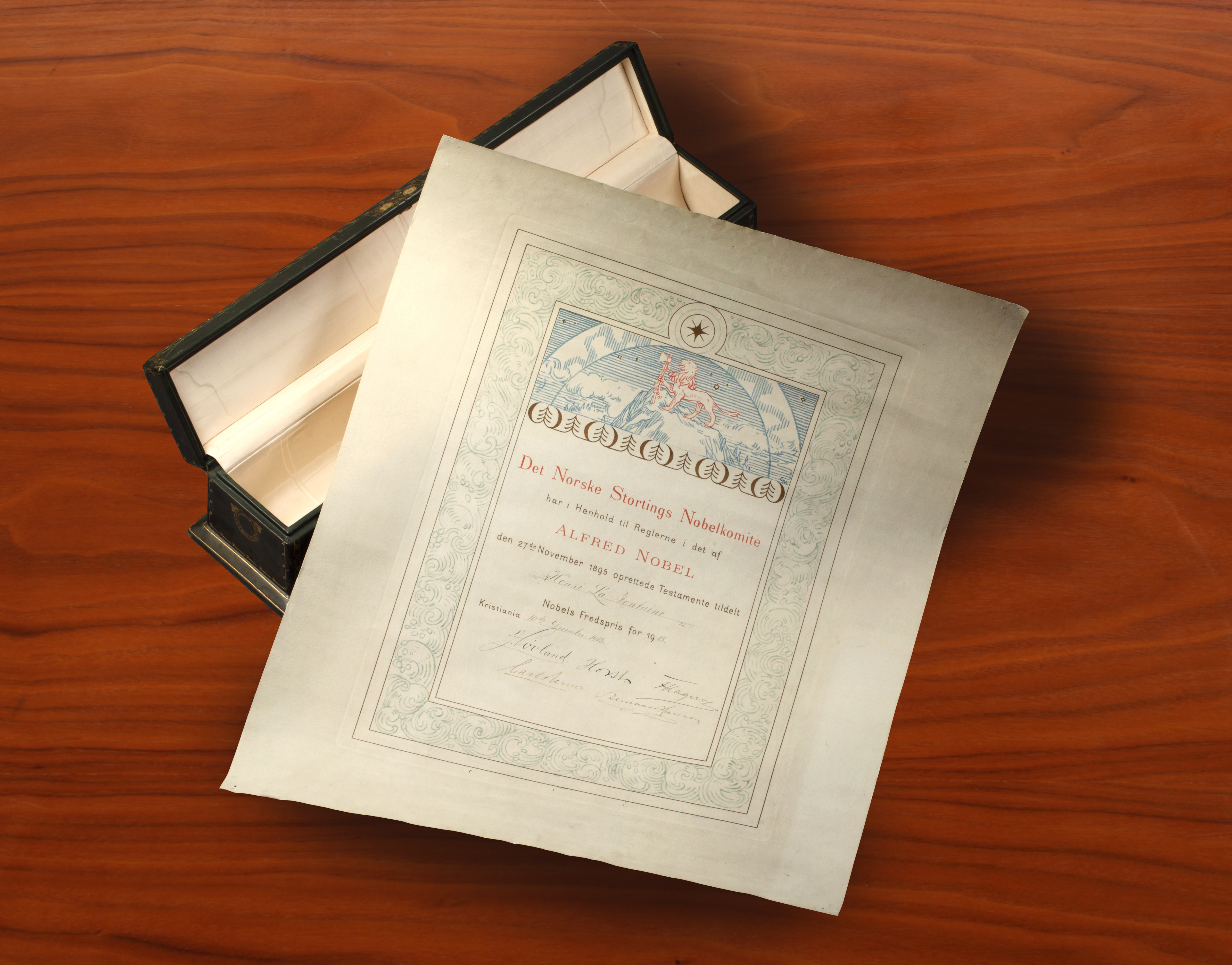 obel Prize for Peace for the work of Henri in the International Peace Bureau (Genova)